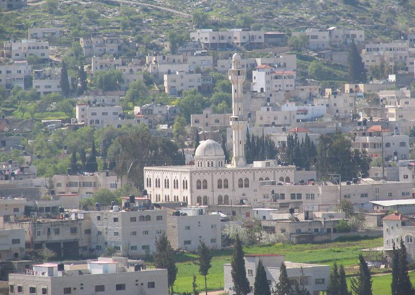 Salah al-Din mosque in the town of Qabatiya